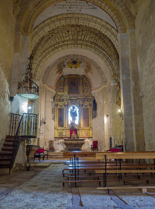 Iglesia de San Miguel en el Castillo de Turégano. Segovia. Castilla León. España